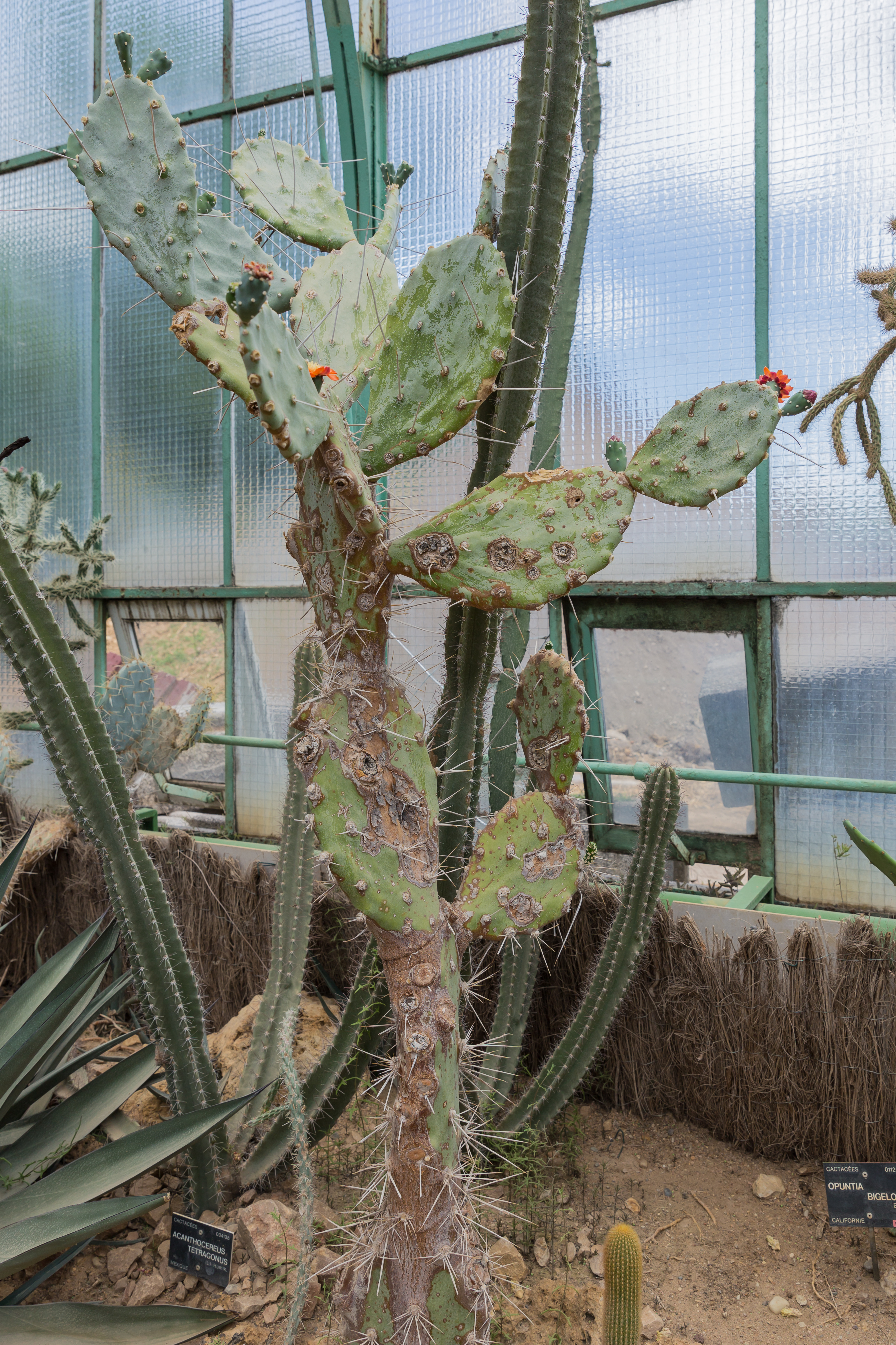 Opuntia quimilo in the jardin botanique de Lyon, France.